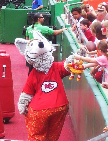 KC Wolf, mascot of the Kansas City Chiefs (National Football League) at Arrowhead Stadium mini camp